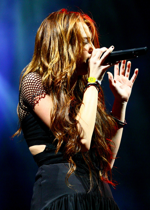 Miley Cyrus during the wonder world Concert in Detroit, Michigan.